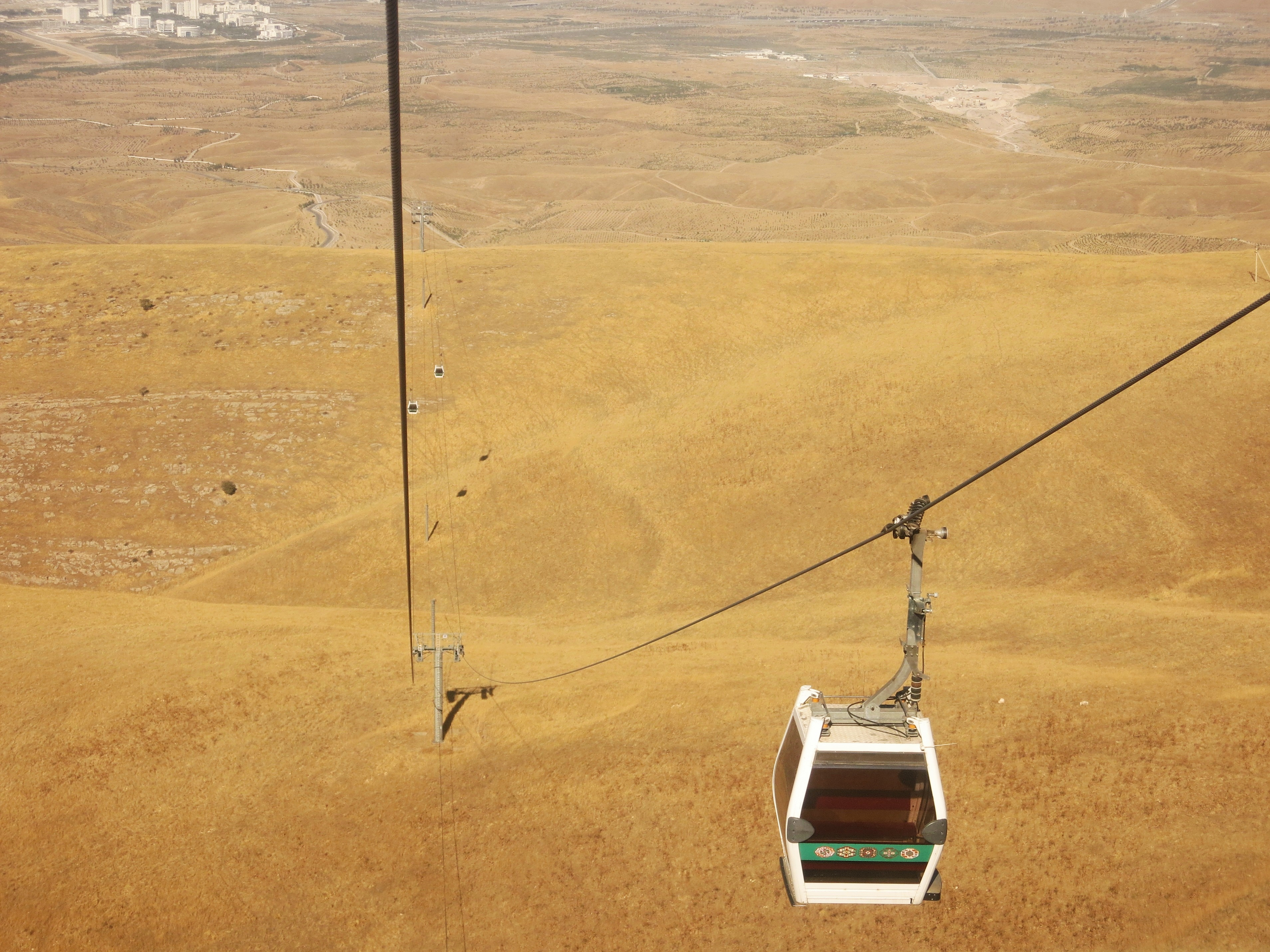 Turkmenbaschi cable car between mountain station and valley station in the southern suburban area of the Turkmenian capital Aschgabat